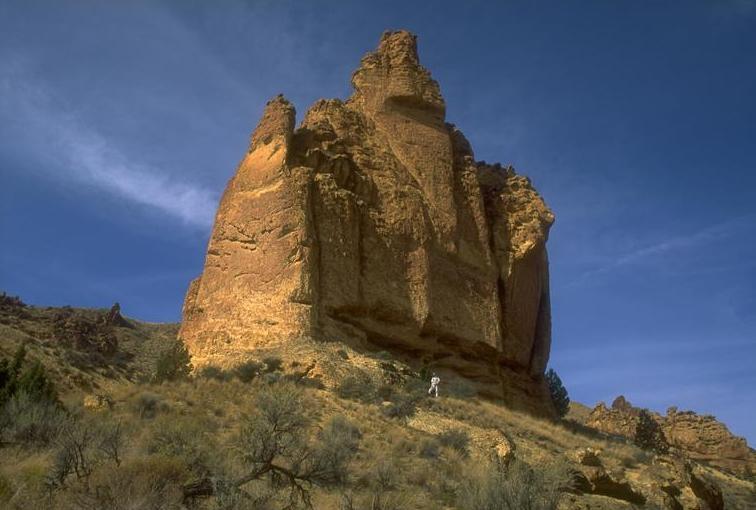 Leslie Gulch, giant rock castle, Malheur County, Oregon, 2008.